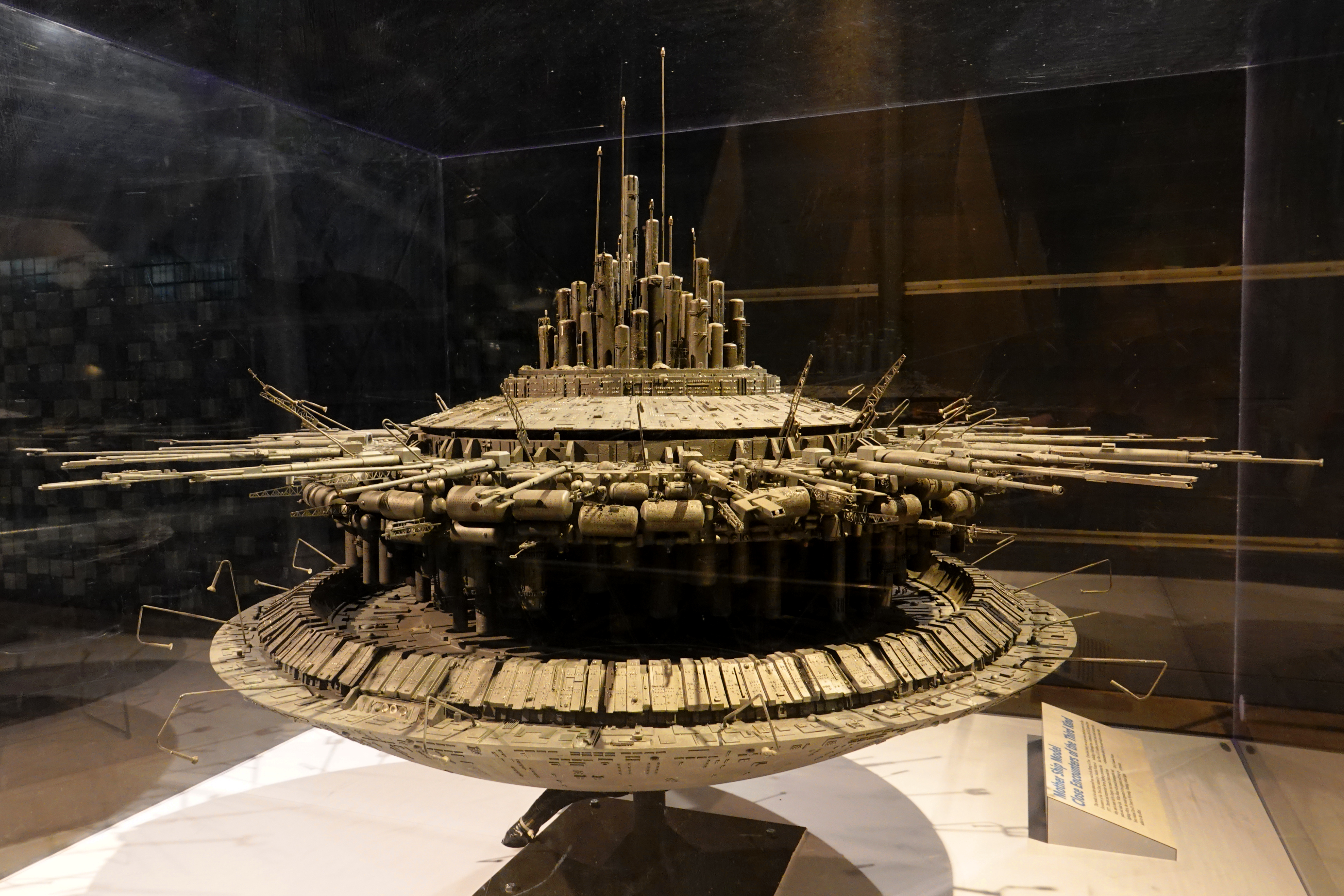 This model of an alien spacecraft was used in the filming of Close Encounters of the Third Kind, released by Columbia Pictures in 1977. Director and screenwriter Steven Spielberg envisioned the ship, and a team led by Gregory Jein made it from model train parts and other kits. When filmed with special photographic and lighting effects, the model appeared to be a gigantic craft rising up from behind Devil’s Tower in Wyoming. Rotating, colored lights added to the effect. If you look closely, you can spot some details not seen in me ﬁlm, including a Volkswagen bus, a submarine, the R2-D2 android from Star Wars, a U.S. mailbox, an aircraft, and a small cemetery plot —enhancements added by the model makers as inside jokes. Gift of Columbia Pictures.